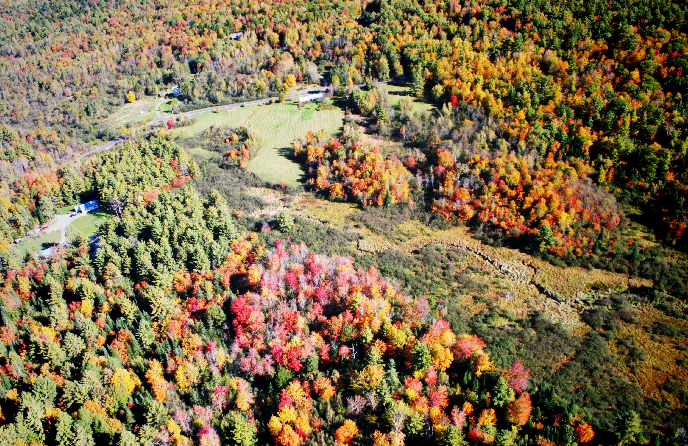 Smithfield, Maine Aerial View 2013 Michael Kagdis